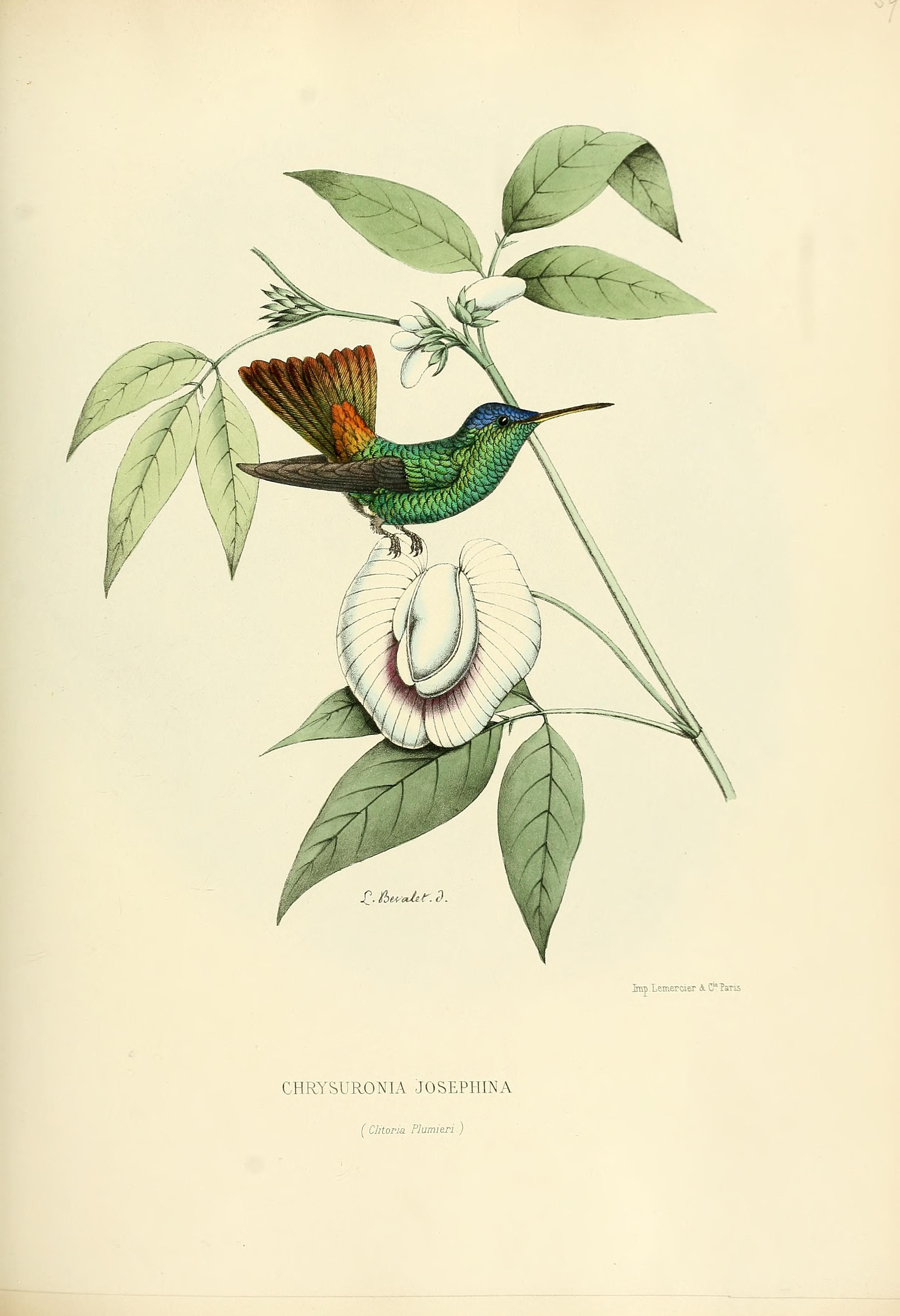 Chrysuronia josephina = Chrysuronia oenone josephinae[1]